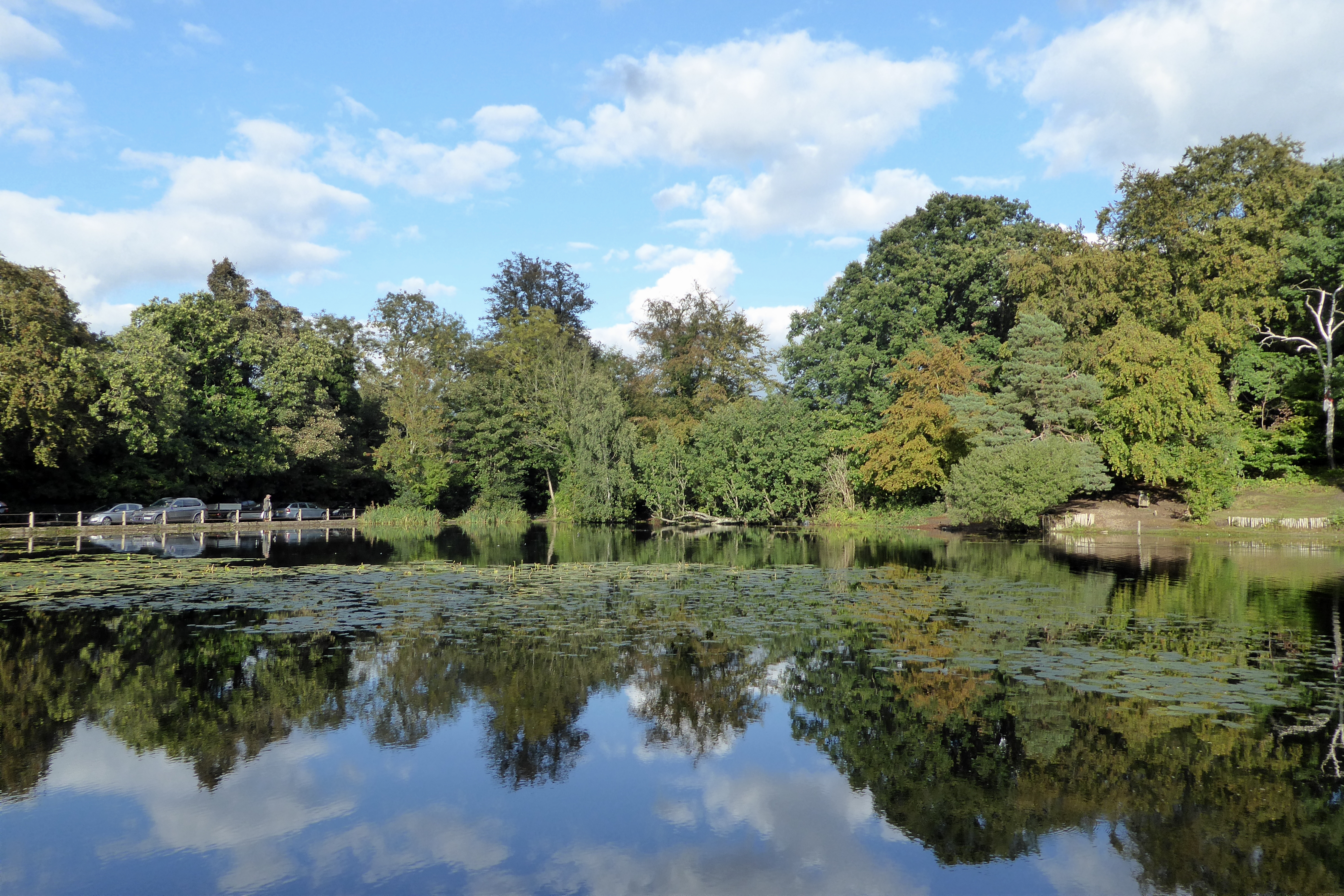 Keston Ponds in Keston, London Borough of Bromley. Taken from the western side of the ponds, facing in a northeastern to eastern direction.